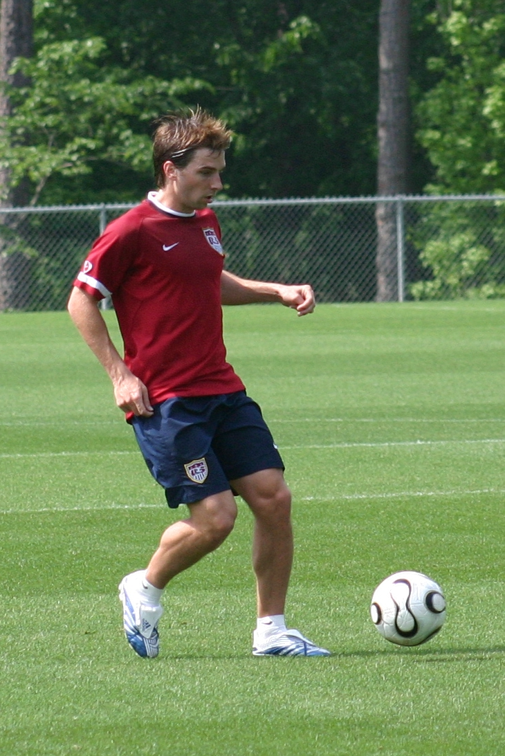 Bobby Convey during USMNT practice session